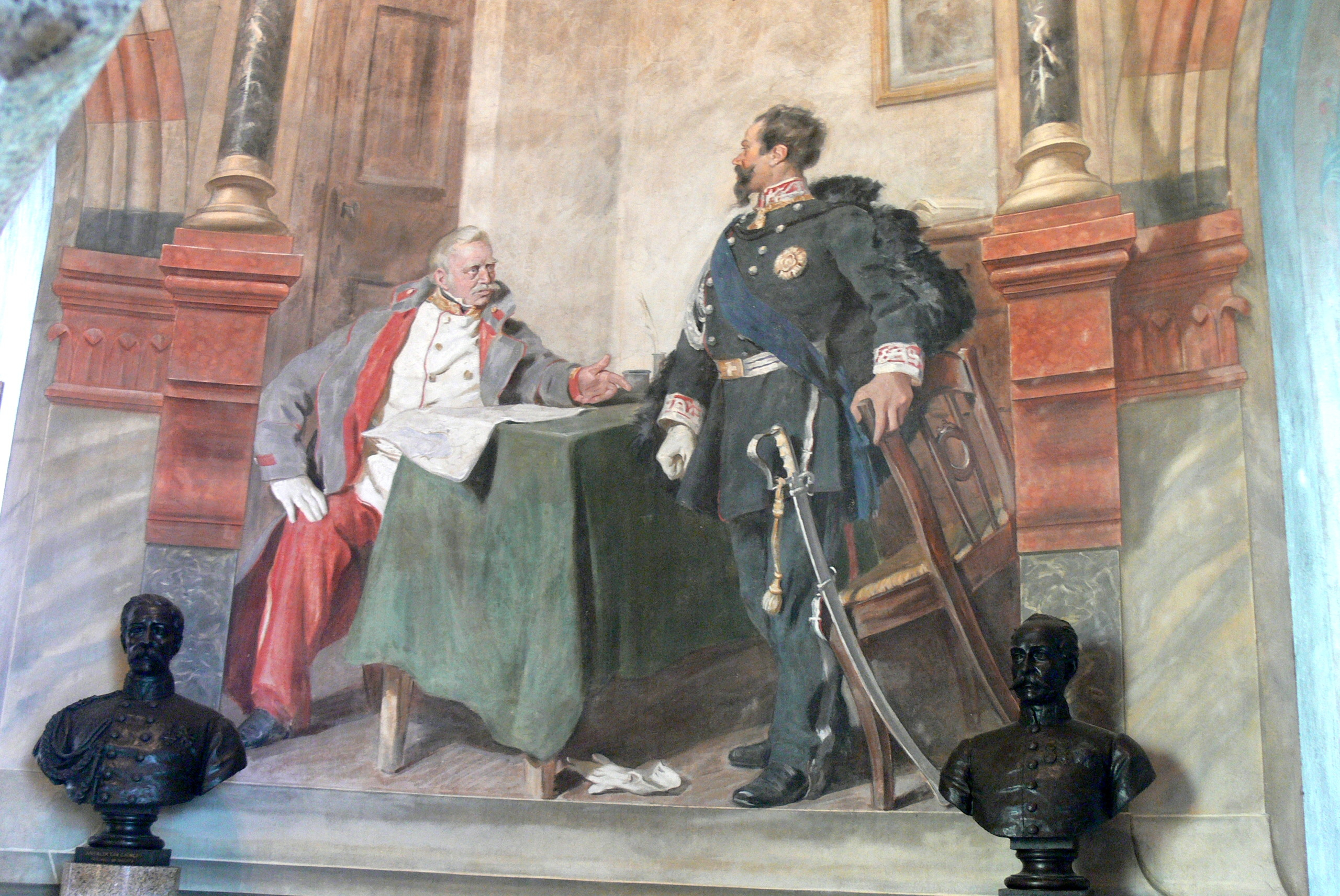 Fresco by Vittorio Emanuele Bressanin (1860-1941) in the Museum of the Tower of San Martino della Battaglia (Italy) showing the meeting of Vignale of March 24, 1849 between Radetzky and the new king of Sardinia Vittorio Emanuele II. - detail